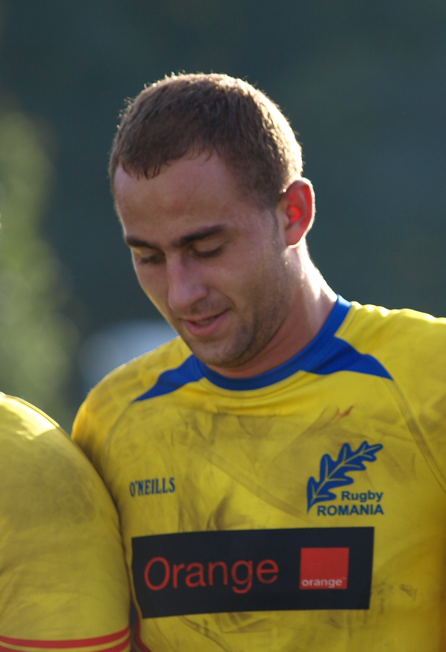 Romanian Junior U-19 Oaks Rugby 2008.jpg